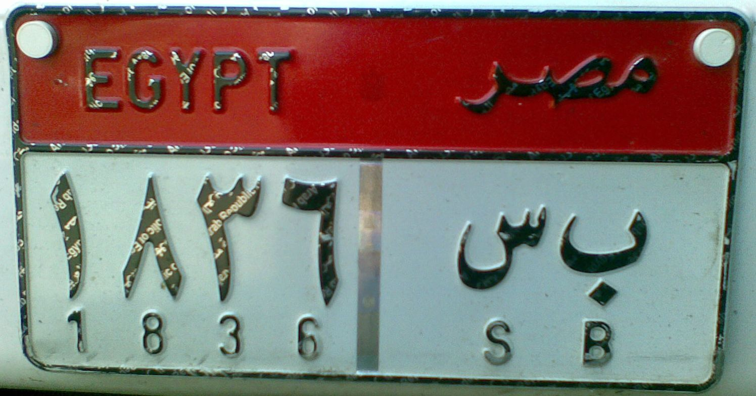 Egyptian license plate for trucks